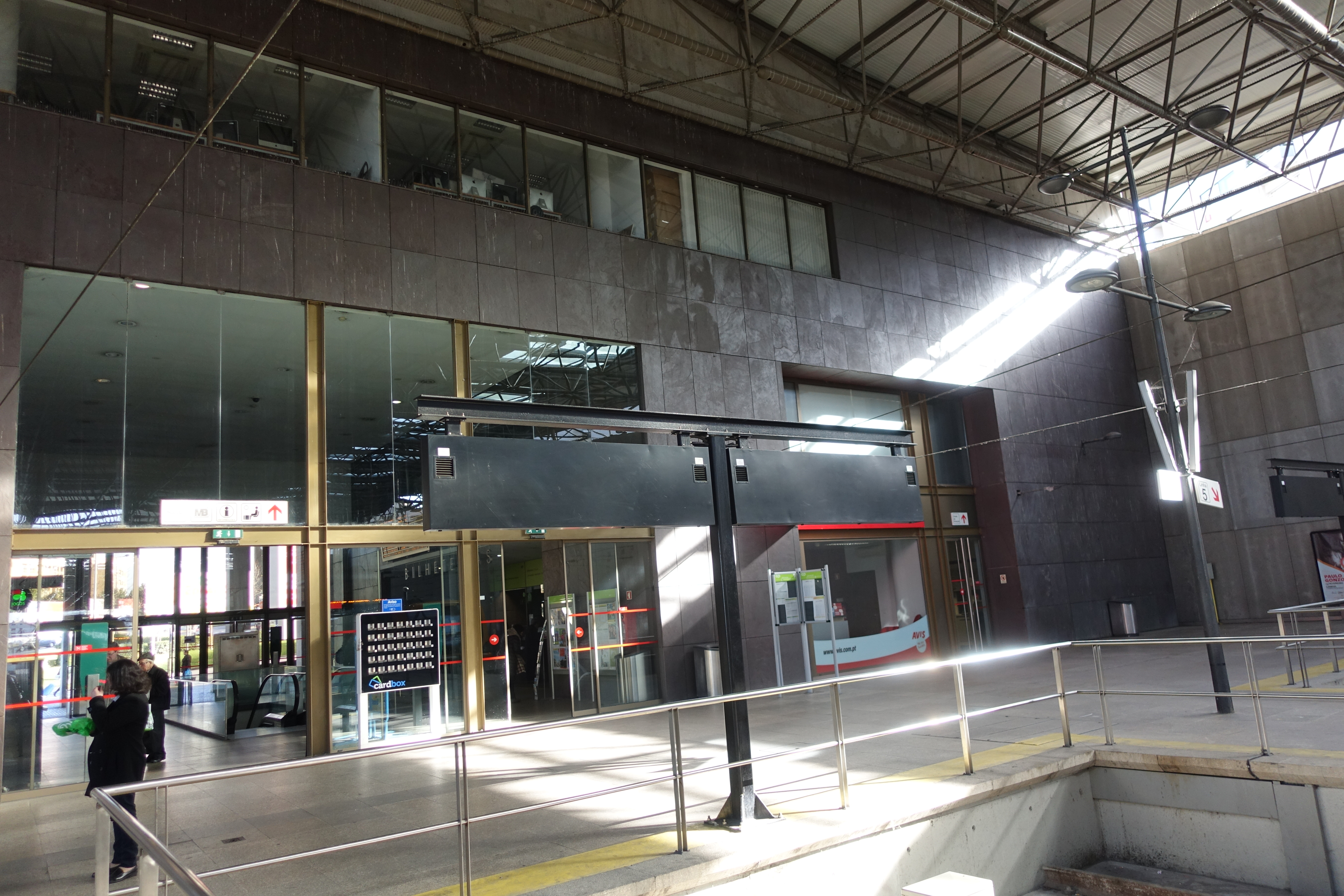 Interior of Braga train station, Braga, Portugal.